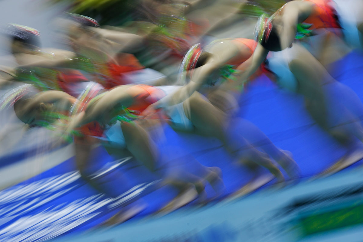 MAY 3, 2008 - Synchronised Swimming : Japan Synchronised Swimming Championships Open 2008 at Tokyo Tatsumi International Swimming Pool on May 3, 2008 in Tokyo, Japan. (Photo by Tsutomu Takasu)